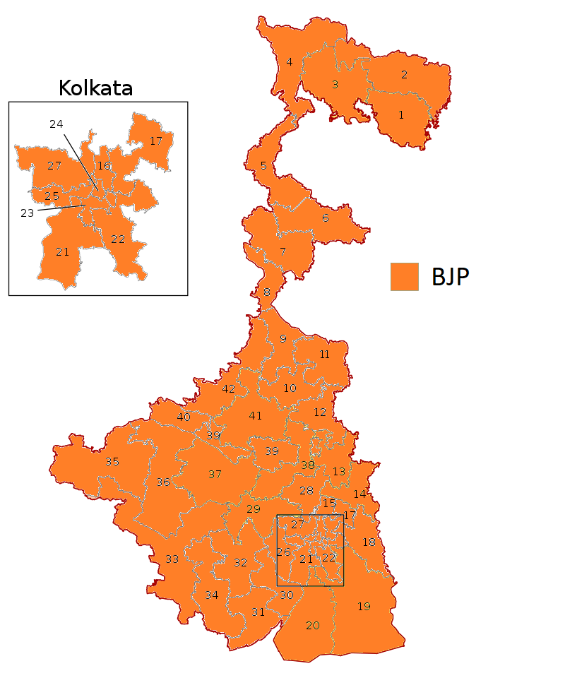 Seat Sharing of NDA in West Bengal